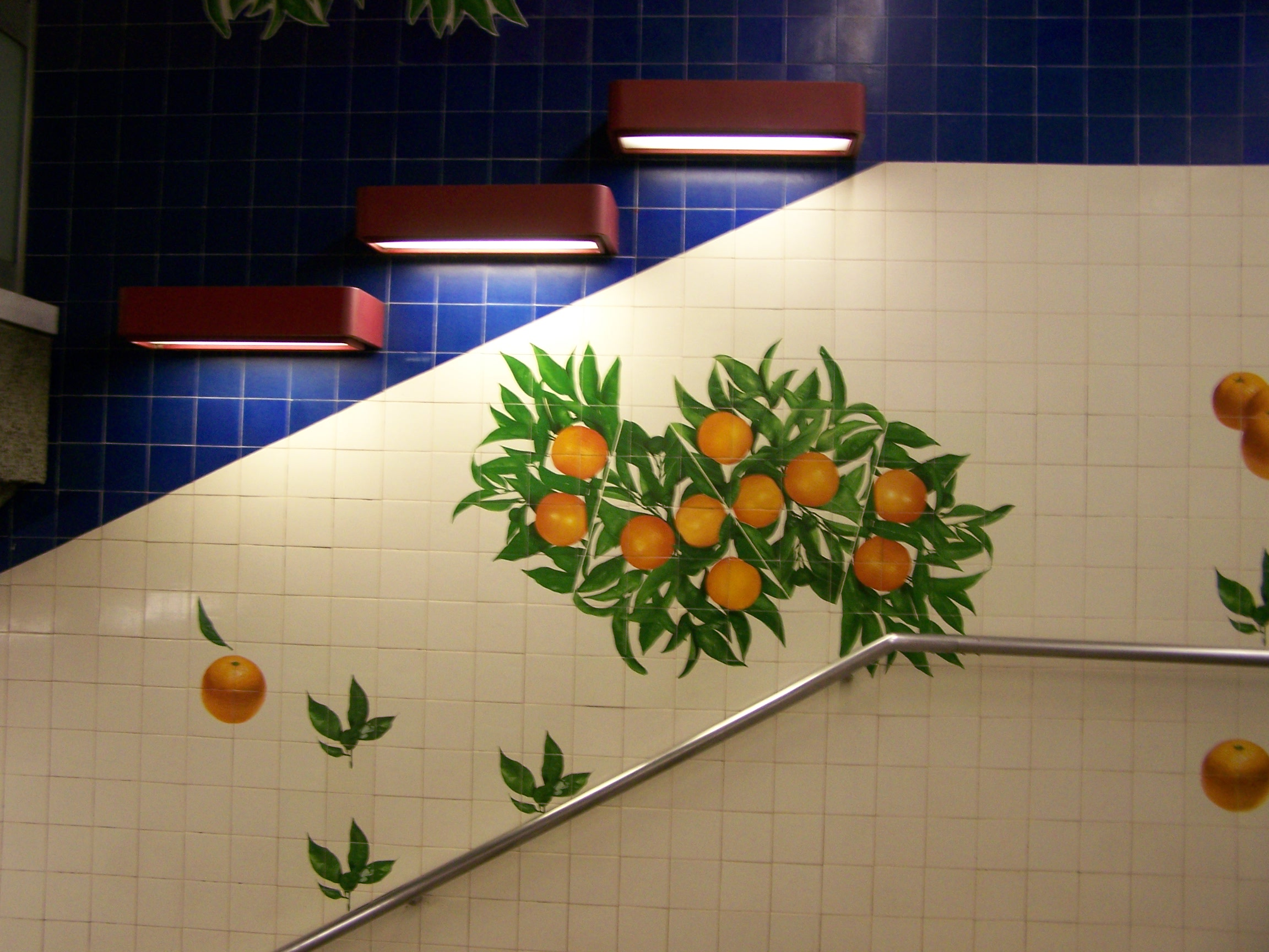 Oranges at Lisbon's underground station Laranjeiras, Lisbon, Portugal; azulejos by Sá Nogueira